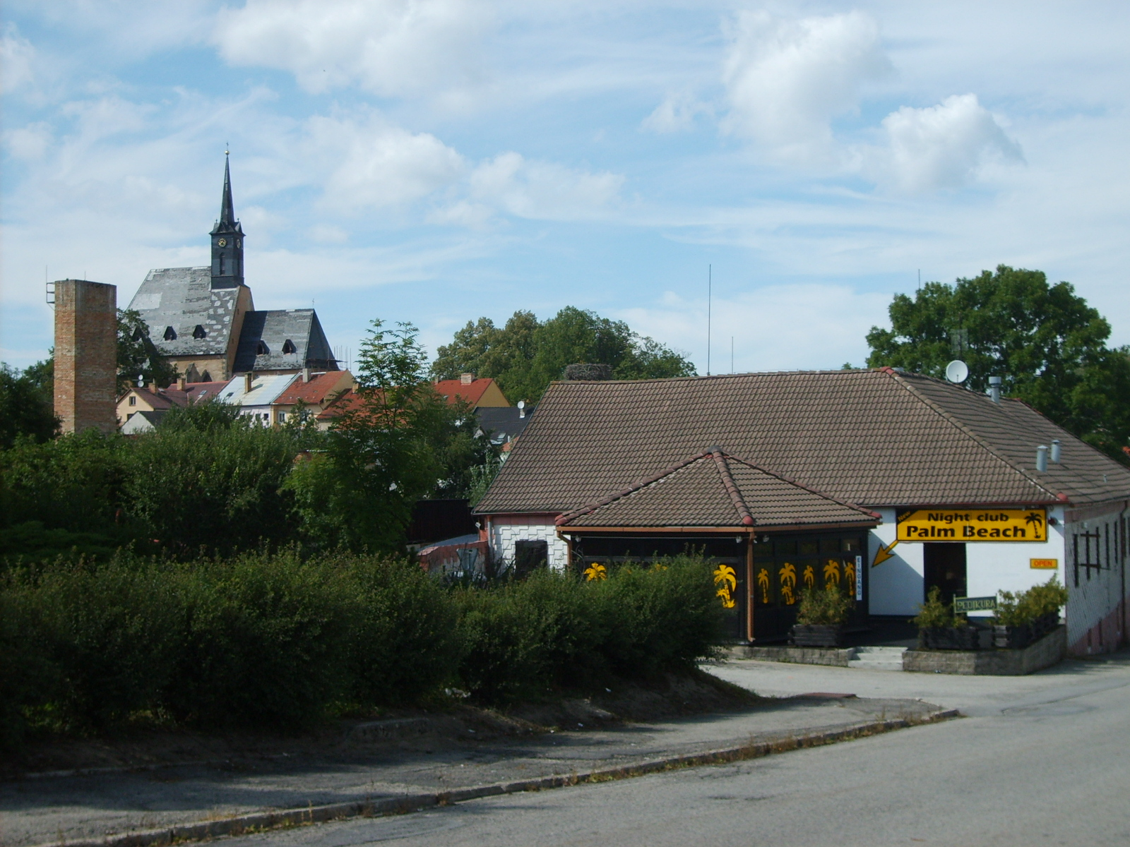 Night club in Dolní Dvořiště, a village near Austria borderline.